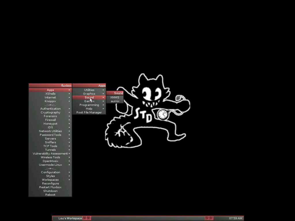 Knoppix STD rc2 2013